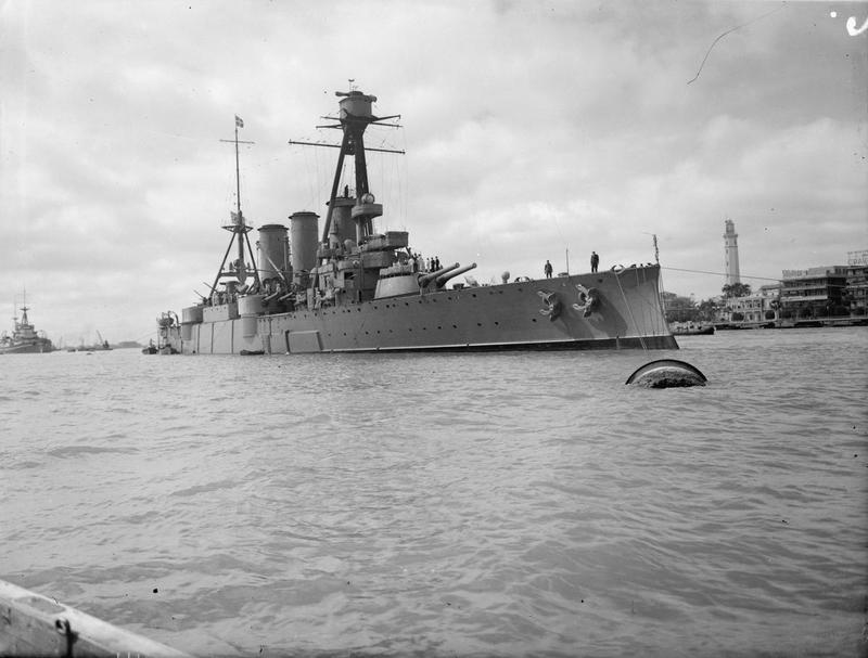 Greek Independence Day in the Greek Navy. 23 February 1943, Port-said, Greek Independence Day, March 25; Will Be Widely Celebrated. Sailors Serving in the Greek Section of the Allied Navies Always Remember That Day. Rear Admiral a Sakellariou, Commander in Chief of the Royal Hellenic Navy Flies His Flag in the Cruiser Hhms Giorgios Averoff. The Greek cruiser HHMS GIORGIOS AVEROFF.